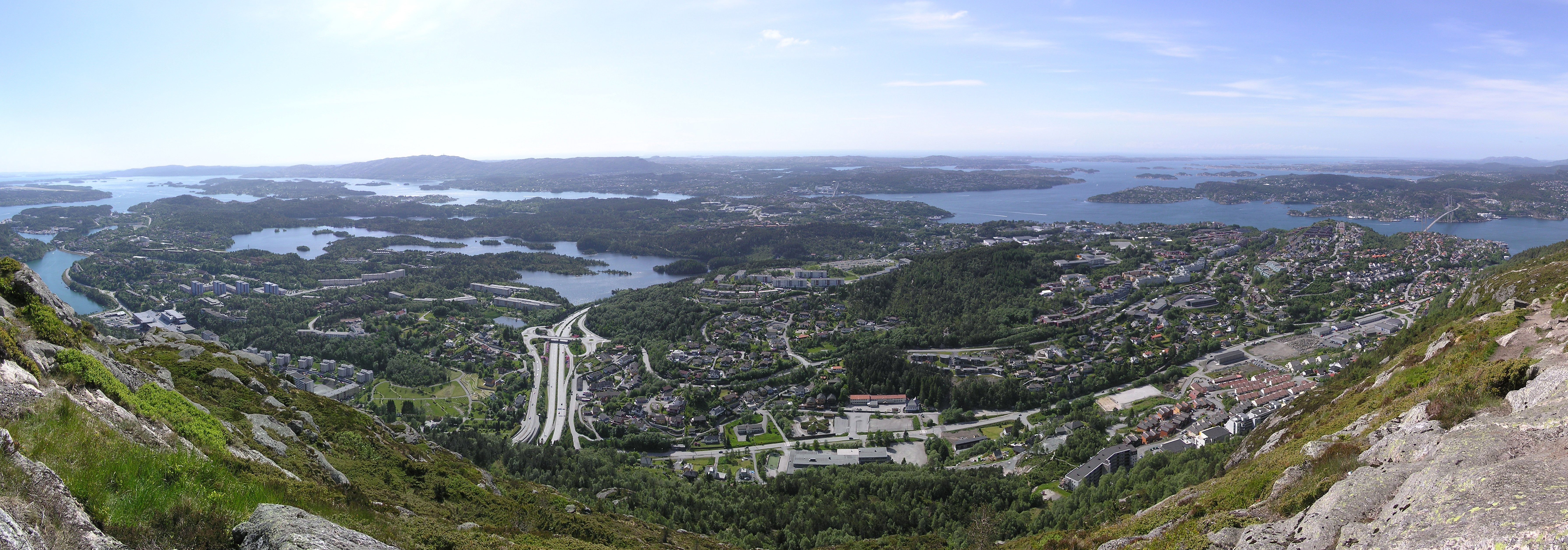 View towards west, as seen from Lyderhorn, Bergen, Norway